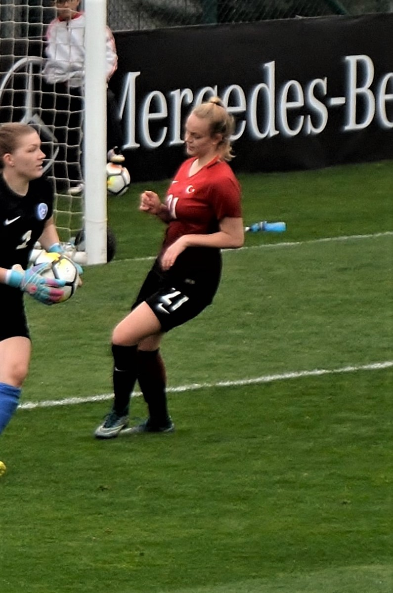 DilaraÖzlemSucuoğlu playing for Turkey women's national football team in the friendly home match against Estonia at TFF Riva Facility on 7 April 2018.